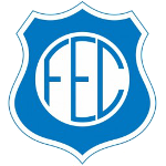 Escudo atual do FEC